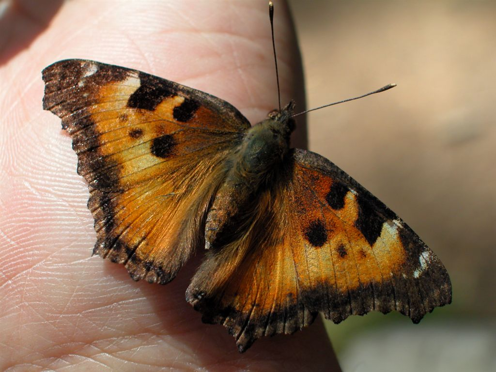 This picture of the California Tortoiseshell was taken in Yosemite National Park California USA.